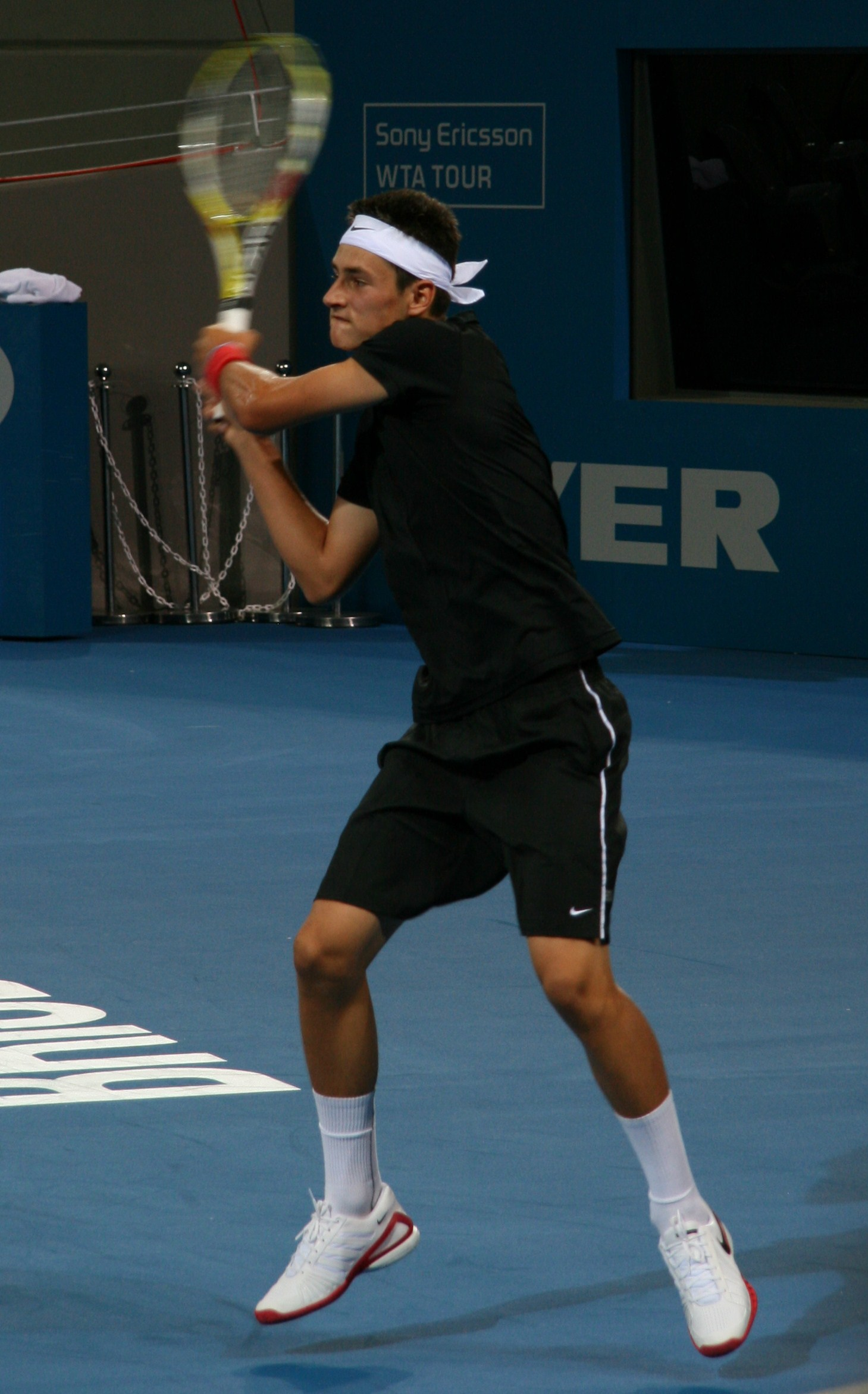 Bernard Tomic at the 2009 Brisbane International, in his ATP tour debut against Fernando Verdasco